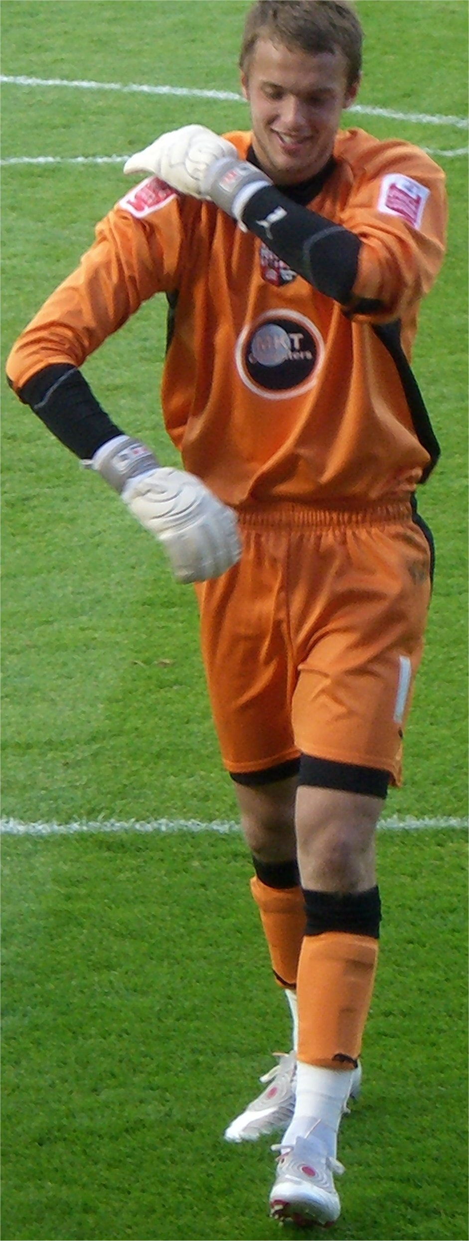 Ben Hamer taken on 23 August 2008 at Underhill Stadium